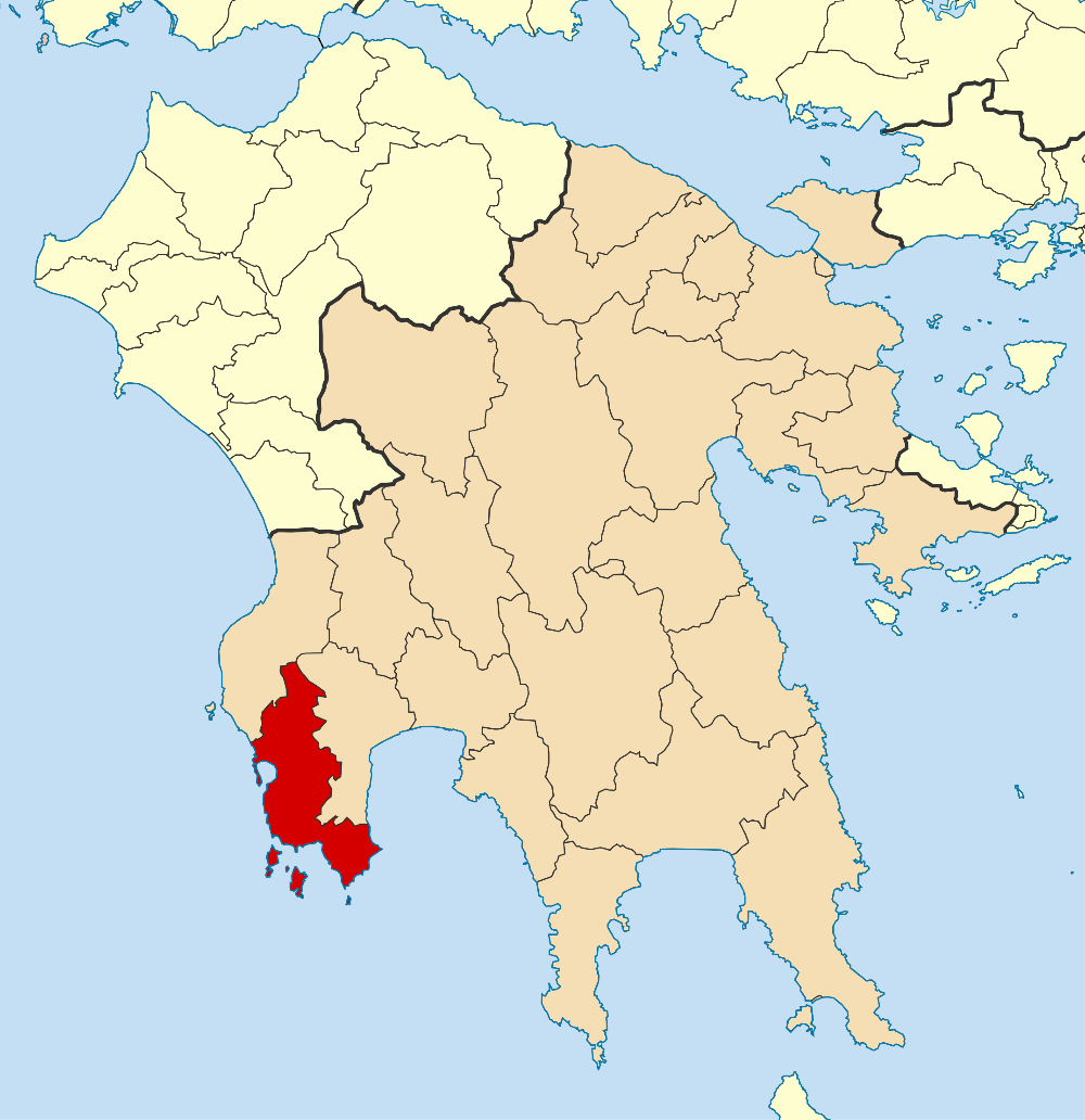 Locator map for Pylos-Nestoras municipality in Greek region Peloponnese (2011)